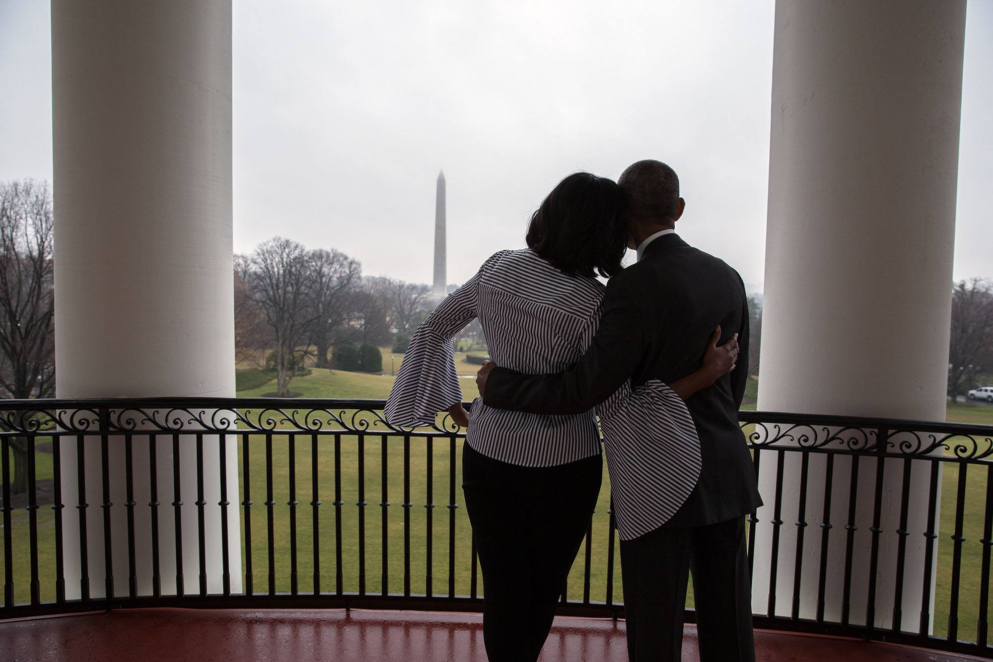 "Being your First Lady has been the honor of a lifetime. From the bottom of my heart, thank you." —First Lady Michelle Obama